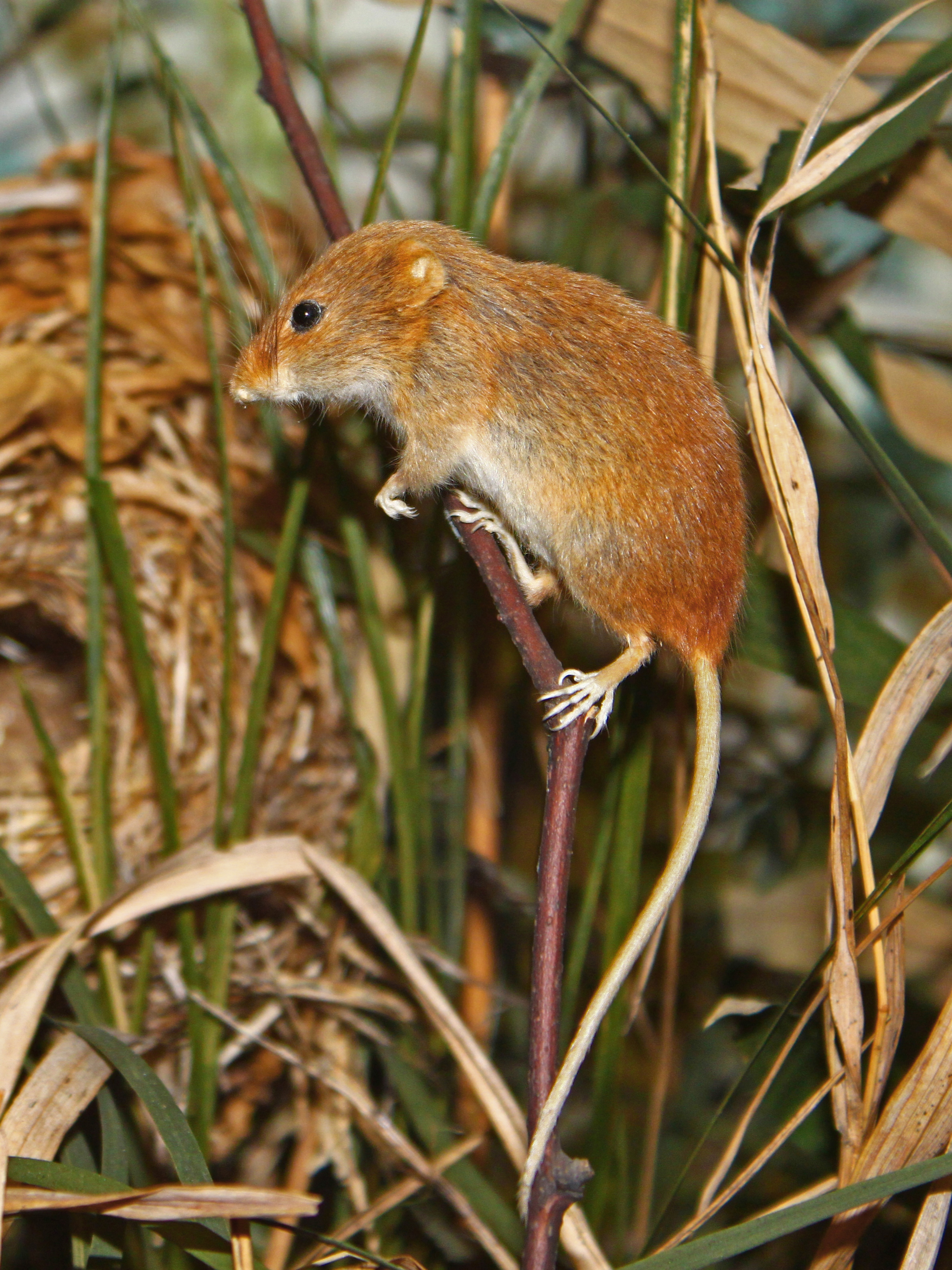 Micromys minutus, Muridae, Harvest Mouse; Staatliches Museum für Naturkunde Karlsruhe, Germany.